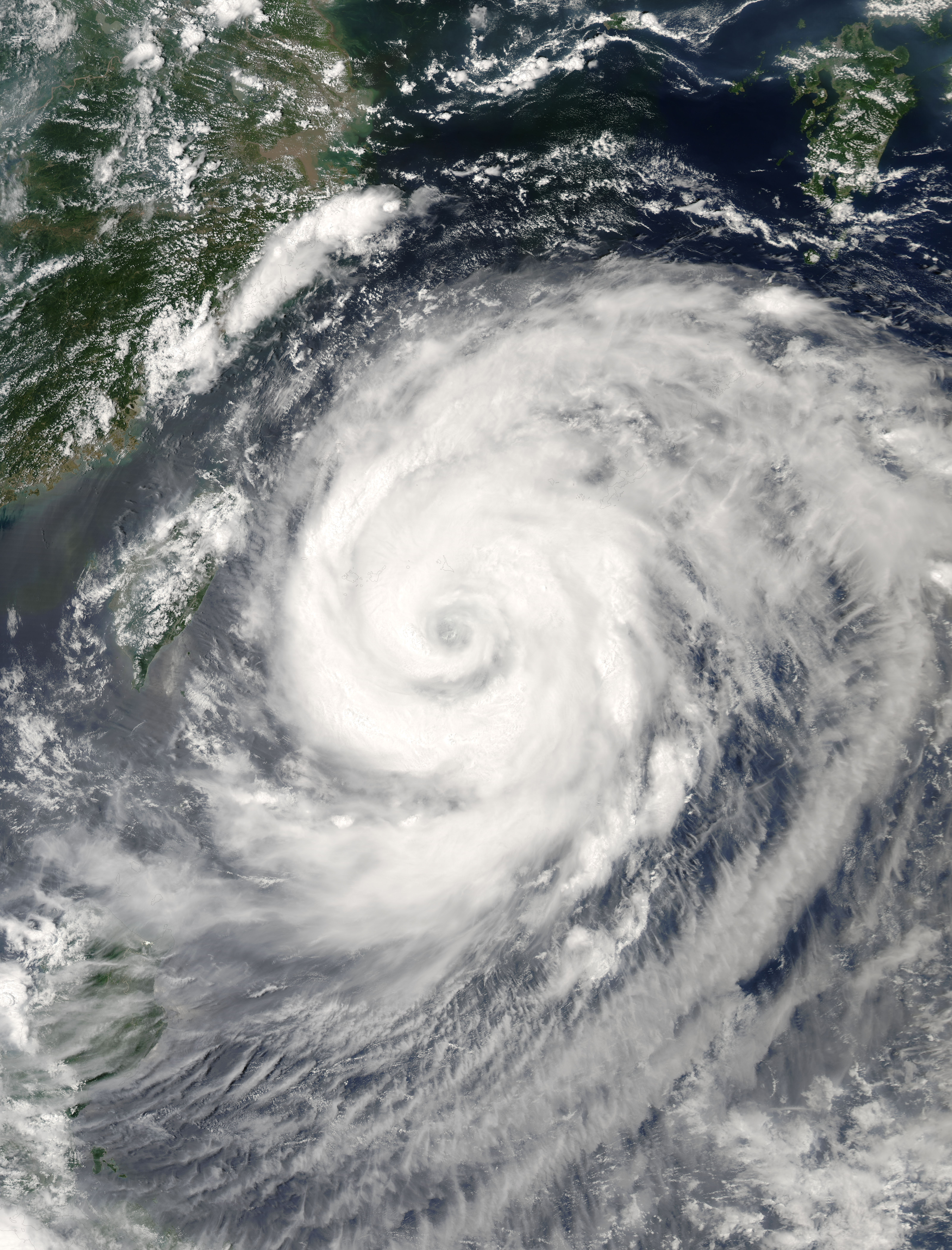 The Moderate Resolution Imaging Spectroradiometer (MODIS) onboard NASA’s Aqua satellite captured this true-color image of Typhoon Rananim on August 11, 2004, at 5:00 UTC while it was approximately 230 nautical miles east-southeast of Taipei, Taiwan. At the time this image was taken, Rananim has maximum sustained winds of 80 knots with higher gusts to 100 knots. The storm was moving towards the northwest at 9 knots and was expected to bring high winds and heavy rains to the northern sections of Taiwan.